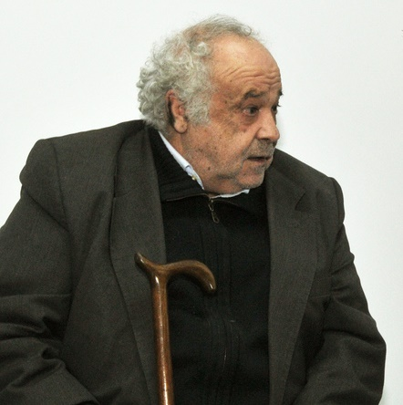 Eleuterio Fernandez Huidobro, Secretary of Defense from Uruguay